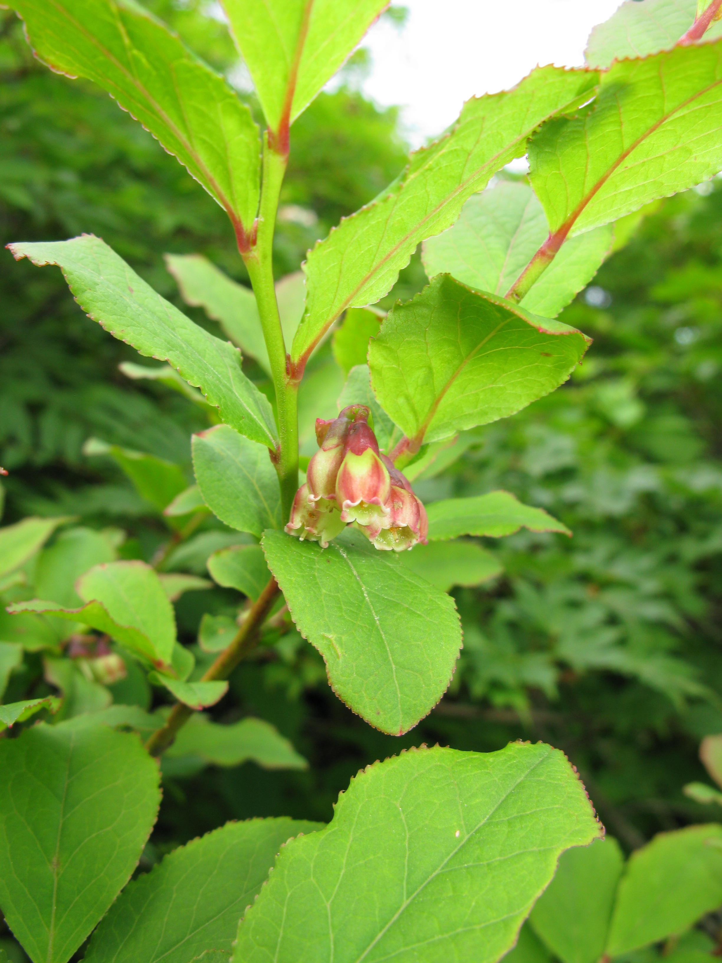 Vaccinium smallii ,Mt. Bandaisan, Fukushima pref., Japan